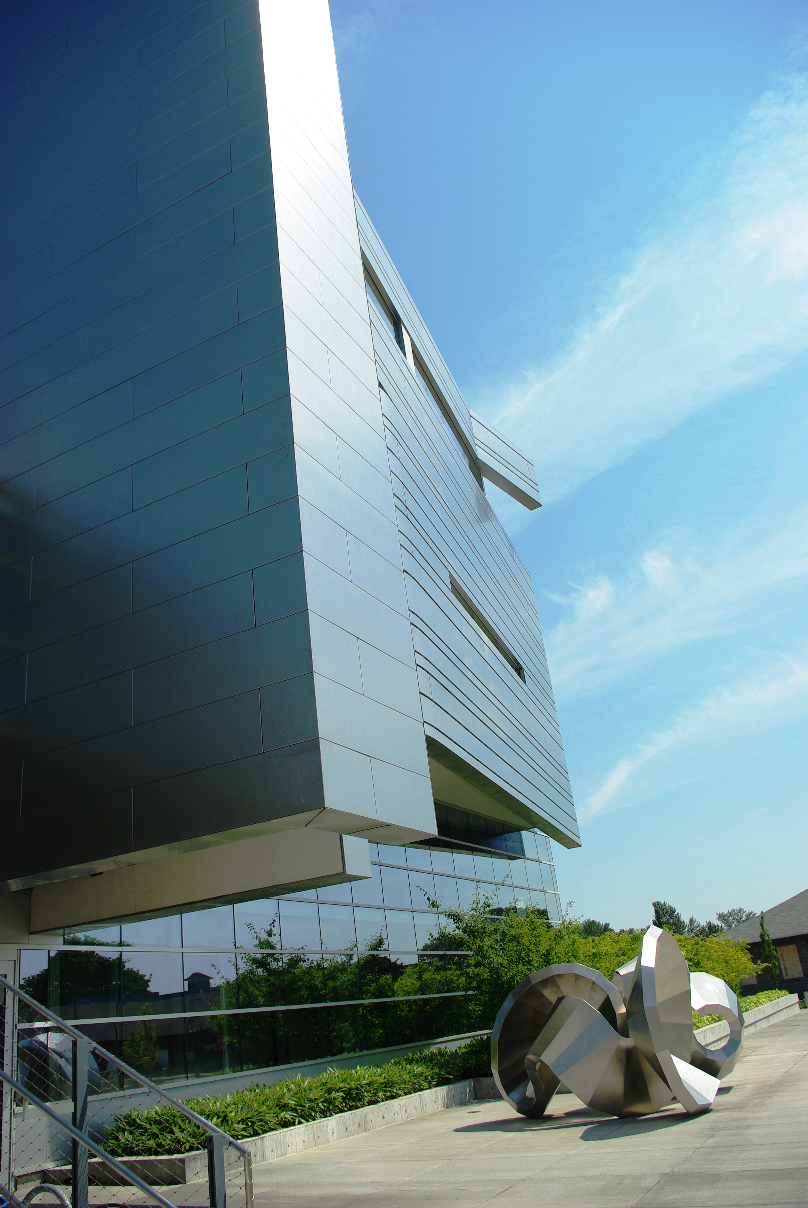 Wayne L. Morse United States Courthouse in Eugene, Oregon, USA.